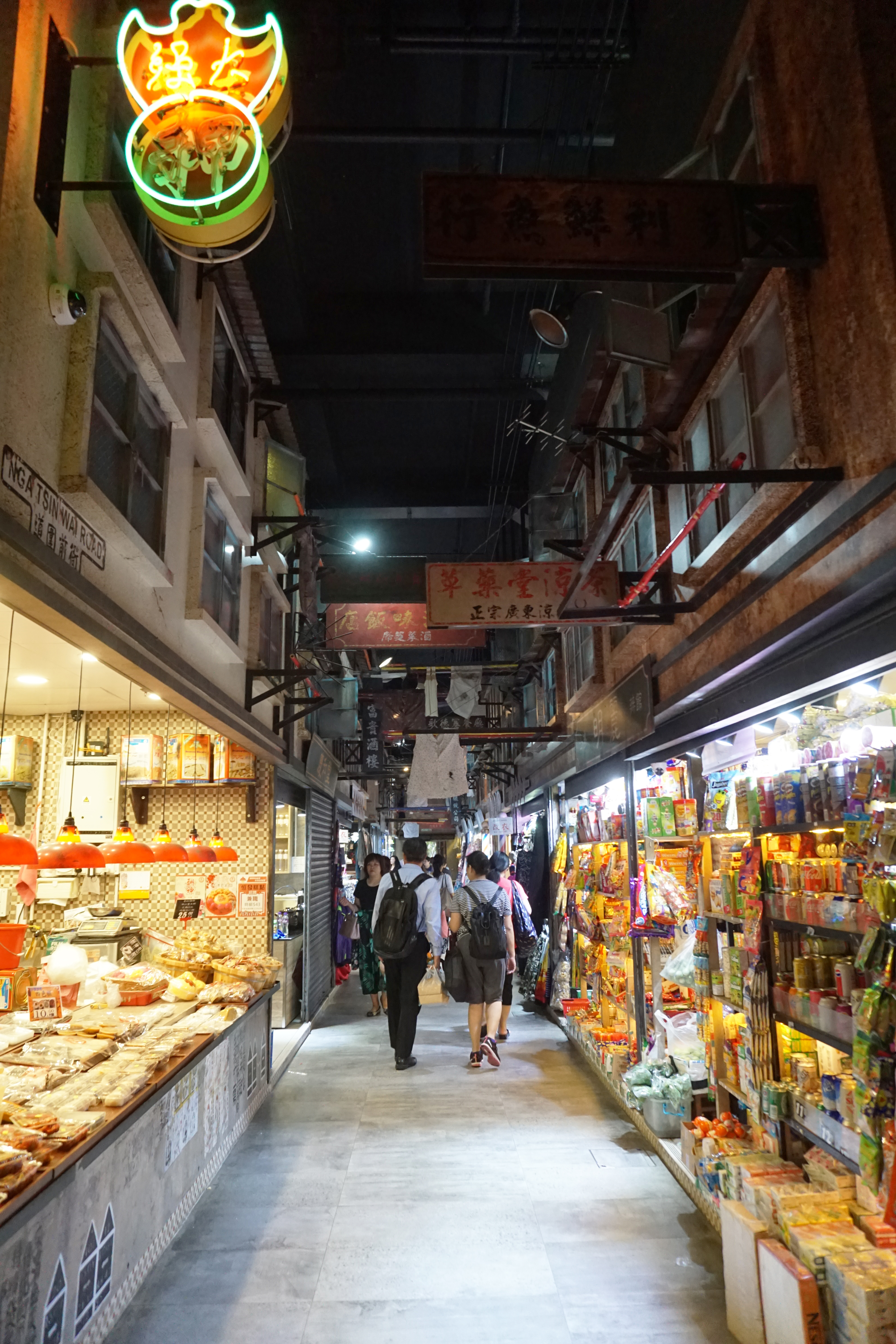 Hong Kong Market in Tung Chung, Hong Kong.